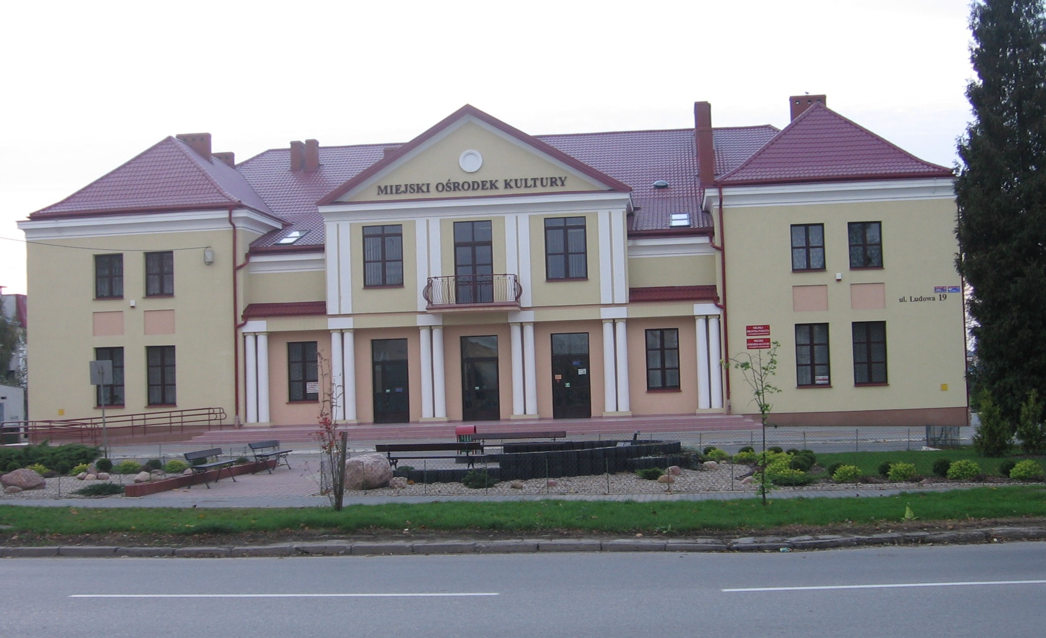 Cultural center in Wysokie Mazowieckie, Poland